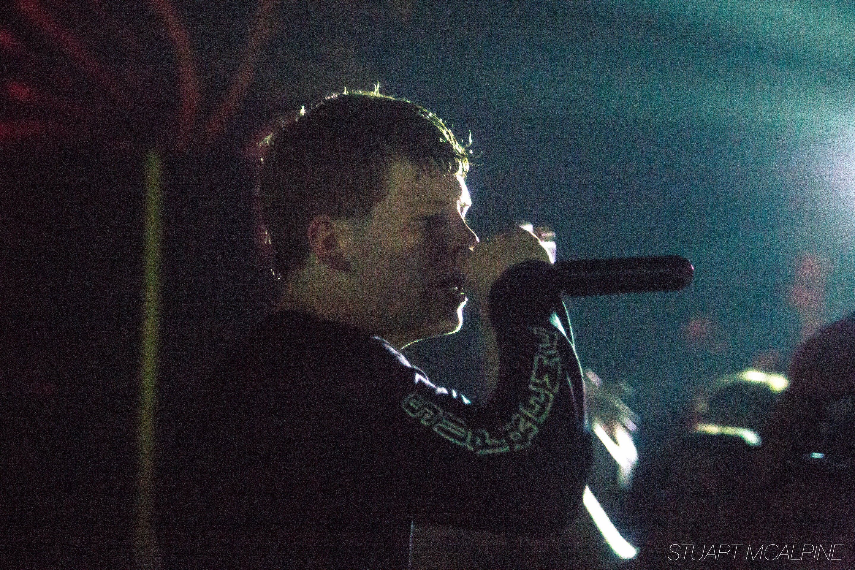 Yung Lean in Palisades, Brooklyn, NY, United States on 2014-07-10